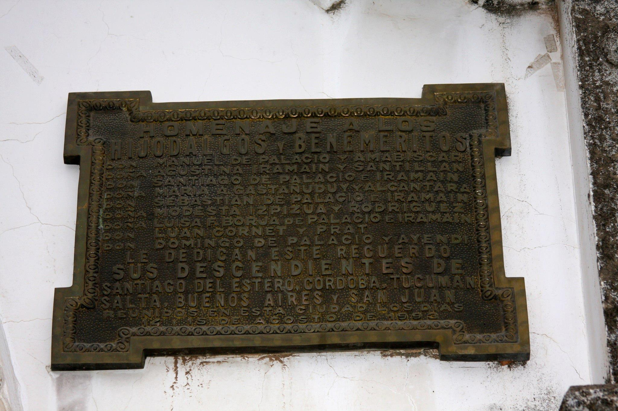 Placa conmemorativa de la Familia Cornet Palacio, Cementerio La Piedad de Santiago del Estero